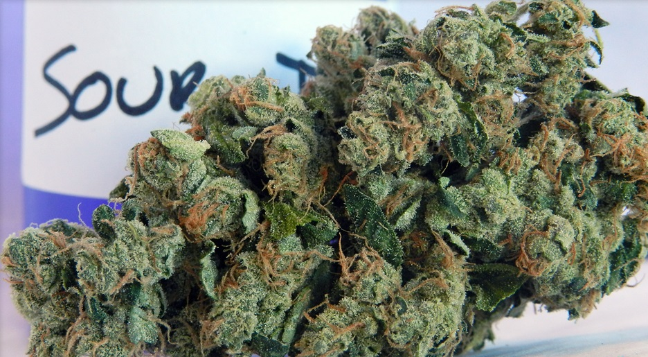 Sour Diesel is a sativa dominant hybrid strain having Chemdog 91 and Super Skunk ancestry. Sour Diesel has an earthy aroma and is attributed with having euphoric, stress relieving and pain relieving properties. Originally discovered in 1990 This strain contains a sativa/indica ratio of 90:10, making it suitable for usage during the day.